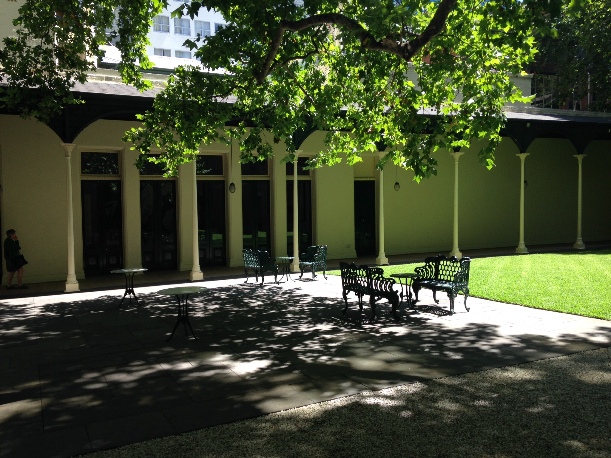 The Melbourne Club garden. Entrance via postern gate, Ridgway Place